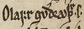 Excerpt from folio 102v of AM 45 fol referring to Óláfr Guðrøðarson, King of the Isles (died 1237). The excerpt reads "Olafr Gvðraþarson" (Unger 1871, p. 476 ch. 169).